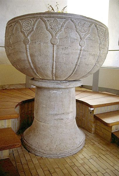 Bregninge Kirke (church) in Kalundborg Kommune